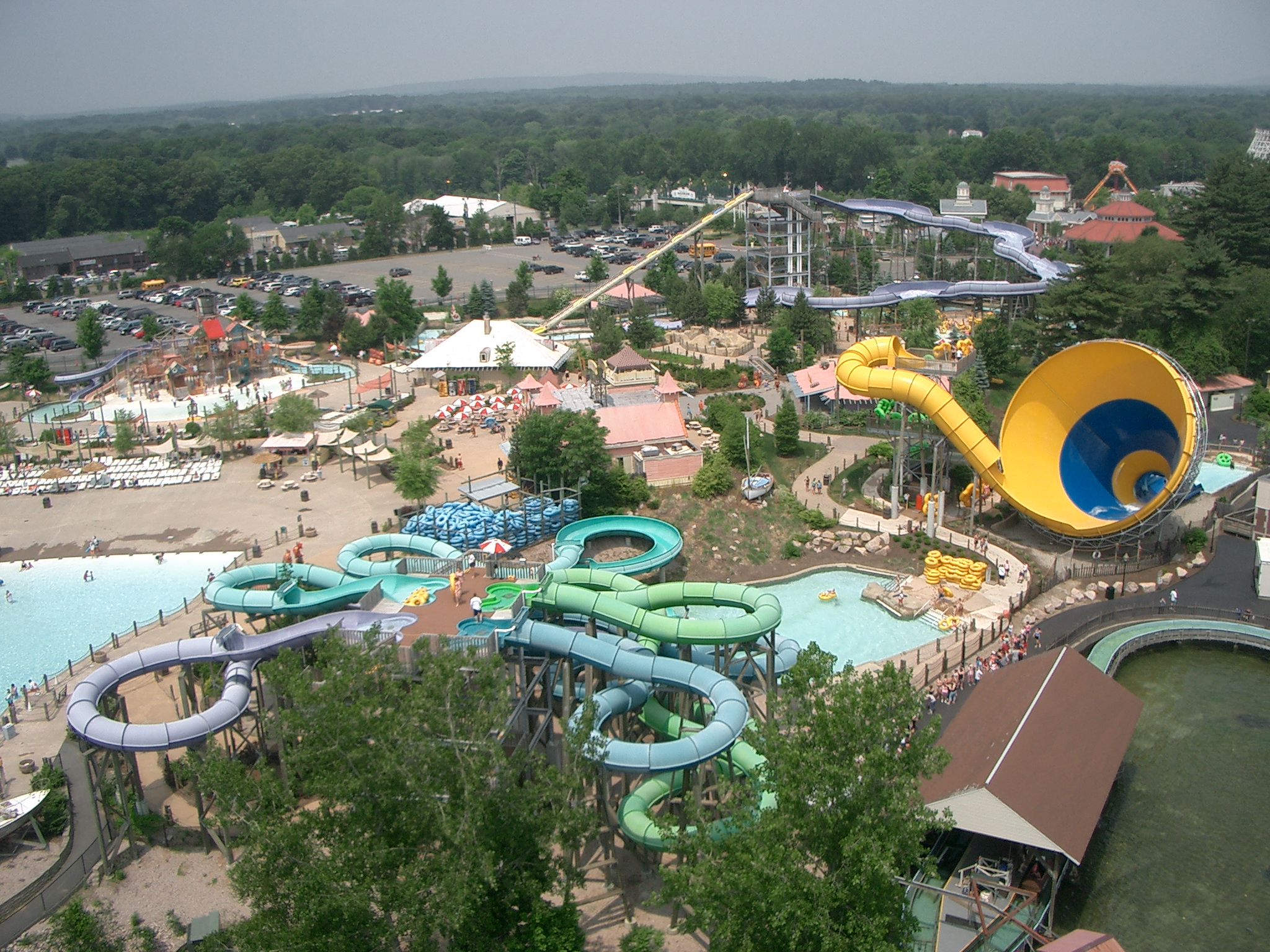 A panoramic shot of the free water park in Six Flags New England.